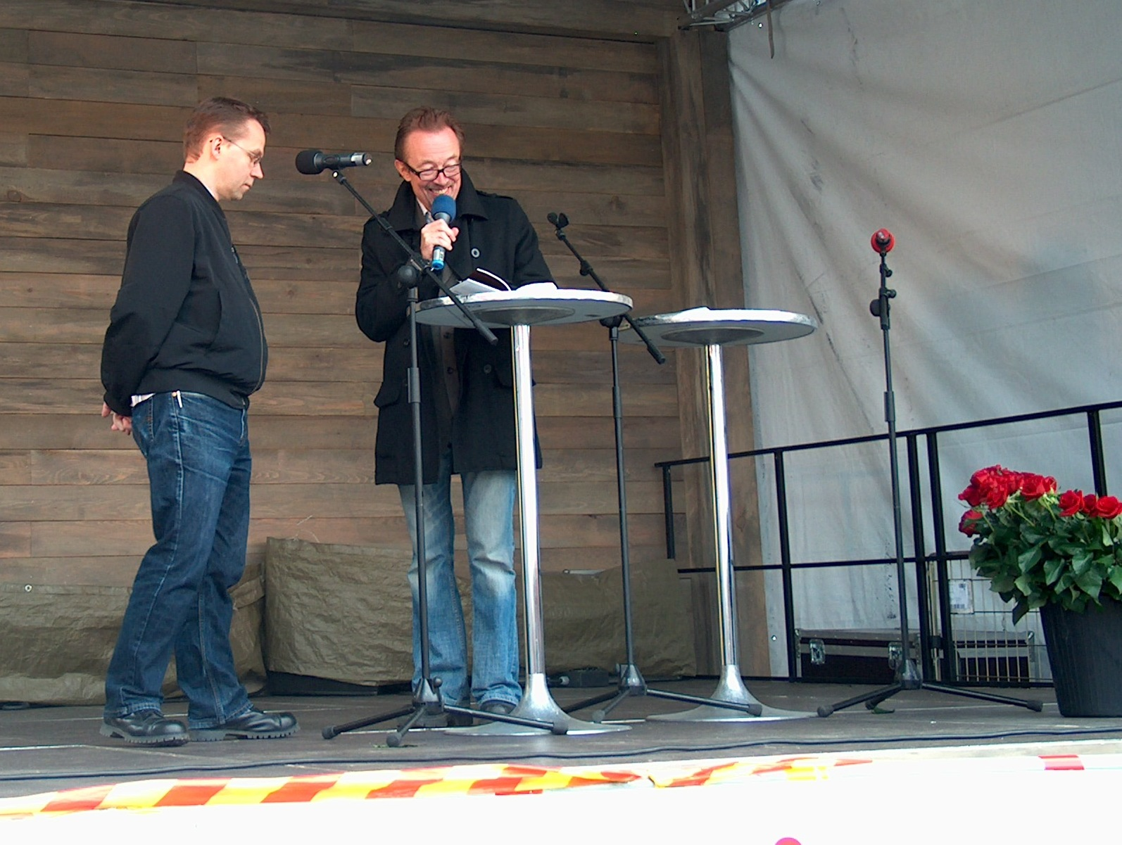 Journalist Ilkka Mattila (on the left) is interviewed by journalist Juha Roiha.